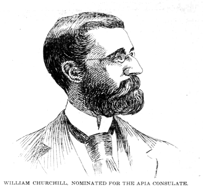 Image of William Churchill, nominated to the Apia (Samoa) Consulate. The Pacific commercial advertiser. (Honolulu, Hawaiian Islands), 18 June 1896. Chronicling America: Historic American Newspapers. Lib. of Congress.